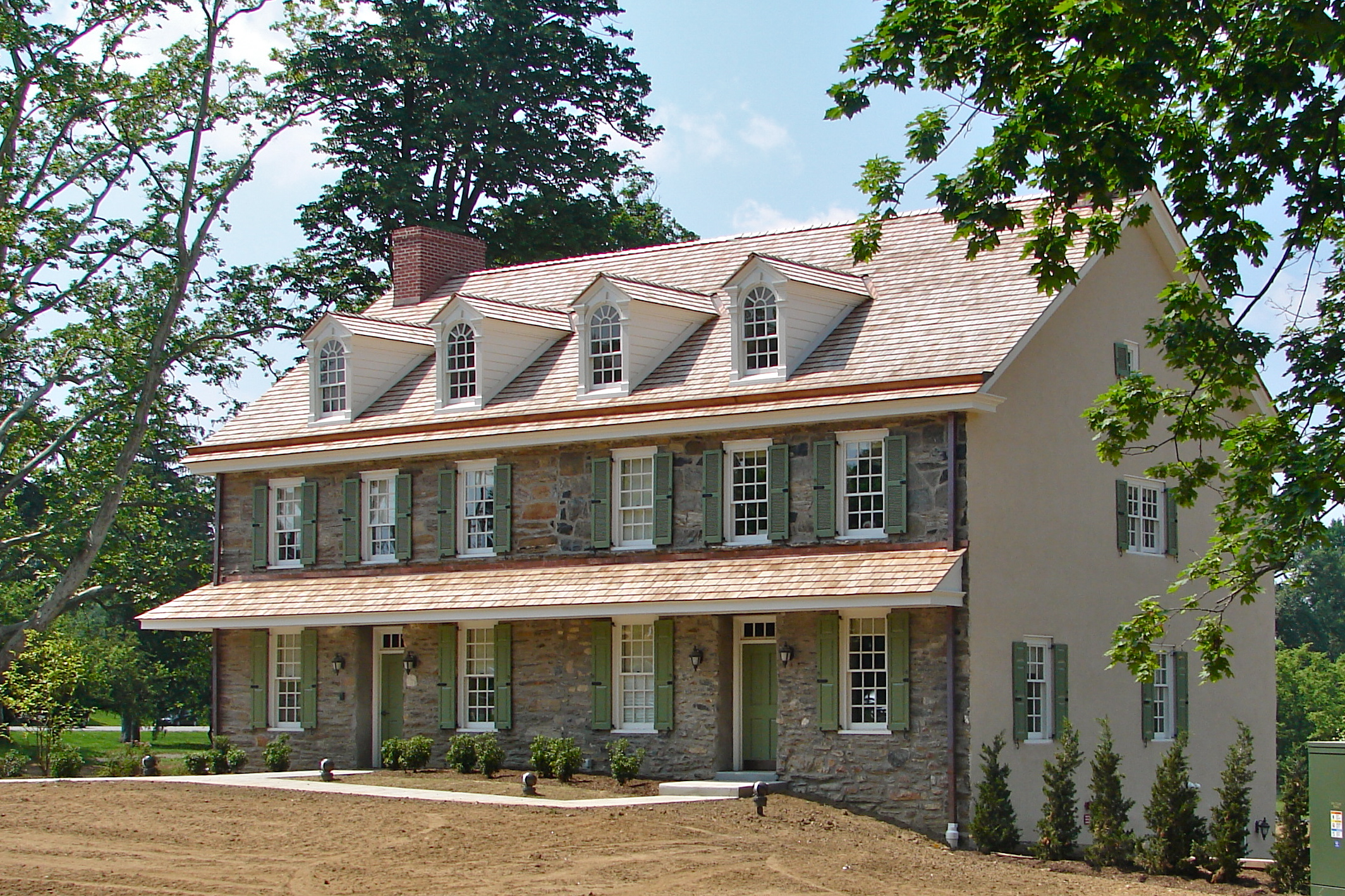 Old Rose Tree Tavern from the southeast. On the NRHP since June 21, 1971. Located northeast of junction of Rose Tree and Providence Roads in Rose Tree Park. Just finishing renovations to house the Brandywine Conference and Visitors Bureau, just north of Media, in Upper Providence Township, Delaware County, Pennsylvania